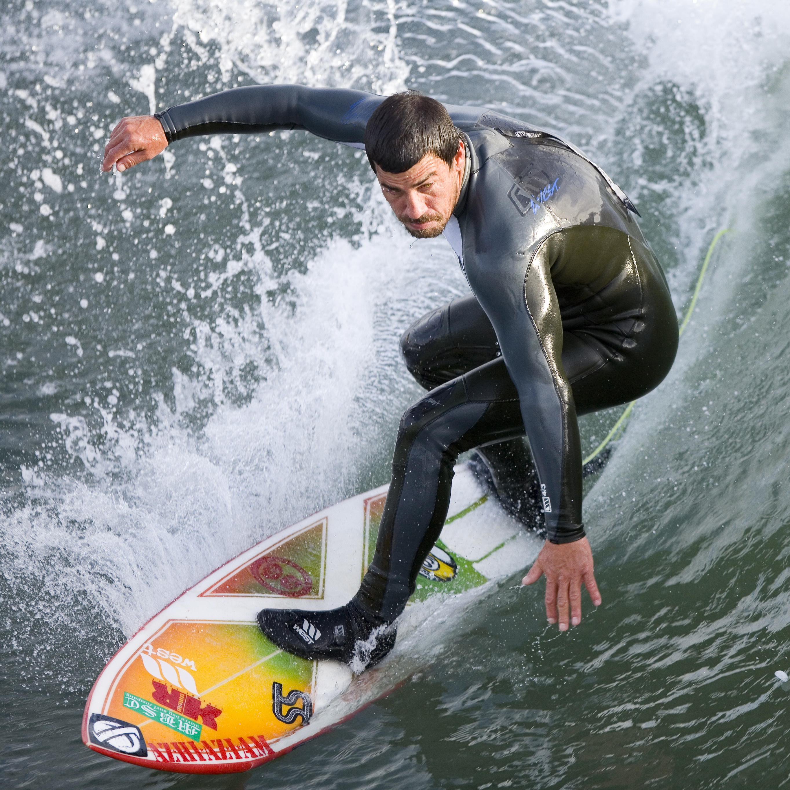 "Get closer" is the photography technique intended to be illustrated here. Oftentimes photos can be improved by getting closer and drawing the viewer's attention to the subject to the exclusion of the background or other environmental elements. Read my (Mike Baird's) tutorial on how to take good surf photos. Dustin Ray "D-Ray" - Surfer at the Cayucos Pier, Cayucos, CA, 01-02-2007 - taken from the pier with a tripod, Canon 5D w/ 300 mm f/2.8 IS lens (EF300mm f/2.8L IS USM). This shot shows the local AZHIAZIAM brand -Photo by Mike Baird 1/1600 f/3.2. This photo is used, by permission, by Chris Woodford at under the Creative Commons license Sadly Dustin Ray passed away September 9th, 2012( Surfers and friends of surfers – please add a Note (see ADD NOTE button above) annotation to this photo and or add a comment below indicating the identity of the individual(s) in this image. This is my favorite surf photo. I want contact info for the above surfer. 19 June 2008 used at under Creative Commons license. 19 Nov. 2008 Creative Commons use note - Qi (pronounced “chee”) is an independent e-magazine striving to bring you stimulating news and entertaining information to enhance your daily living and lifestyle. dailyQi is Qi’s blog.